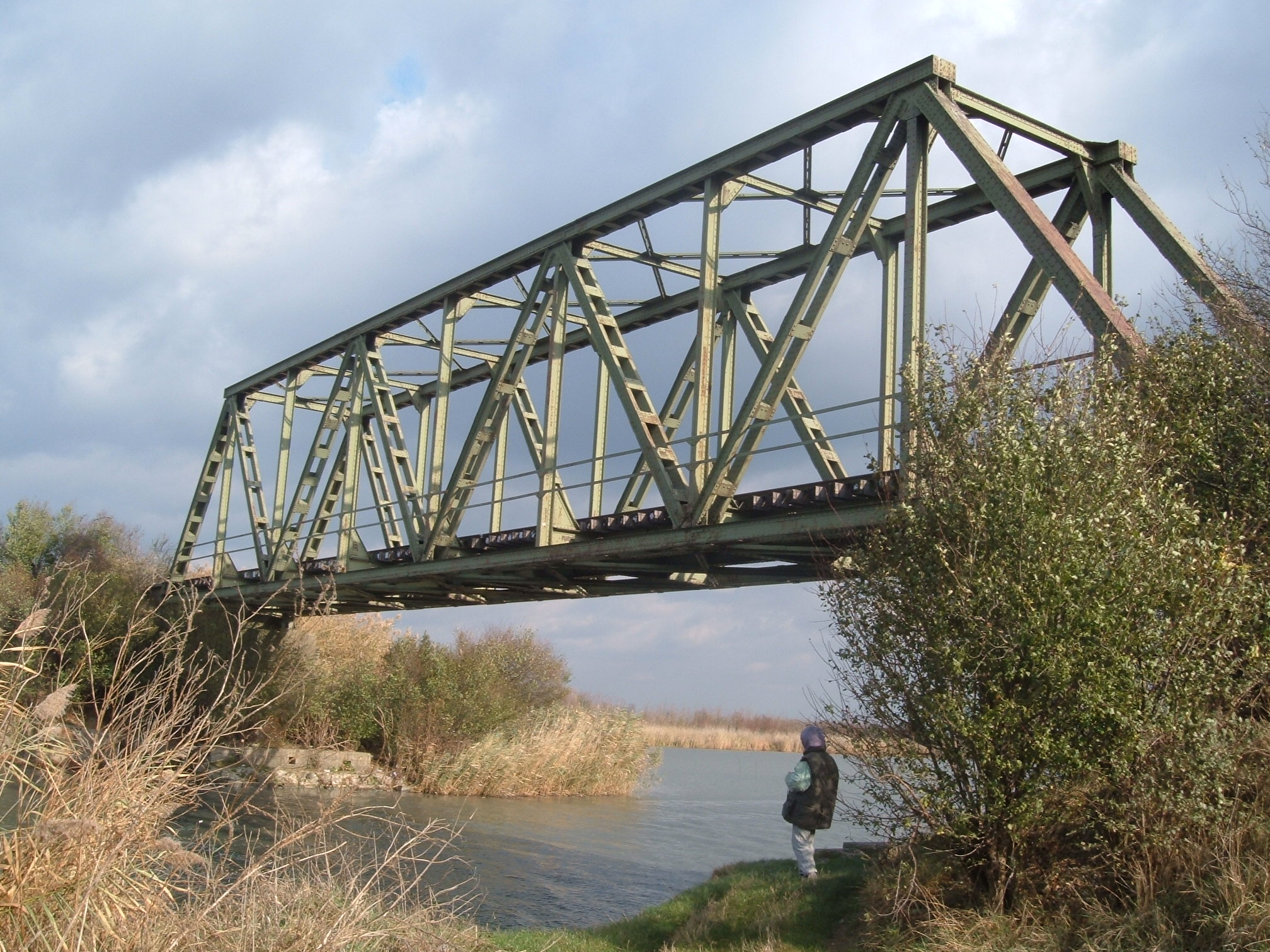 Bridge over Great Bačka Chanel